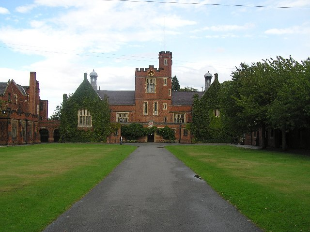 Loughborough Grammar School. The main quad at Loughborough Grammar School.